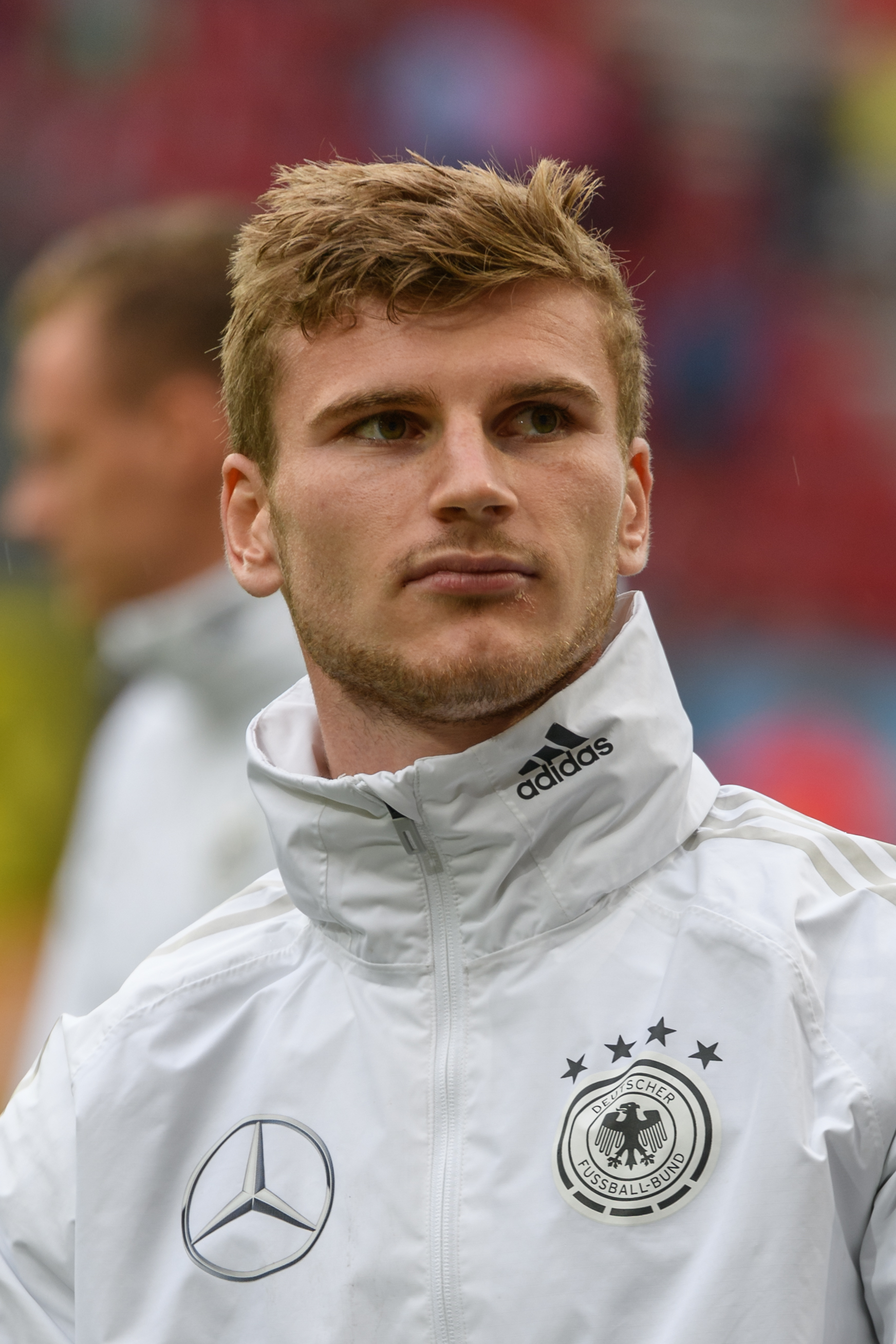 FIFA Friendly Match Austria vs. Germay 2018/06/02 in Klagenfurt/Woerthersee. Picture shows Timo Werner (GER).